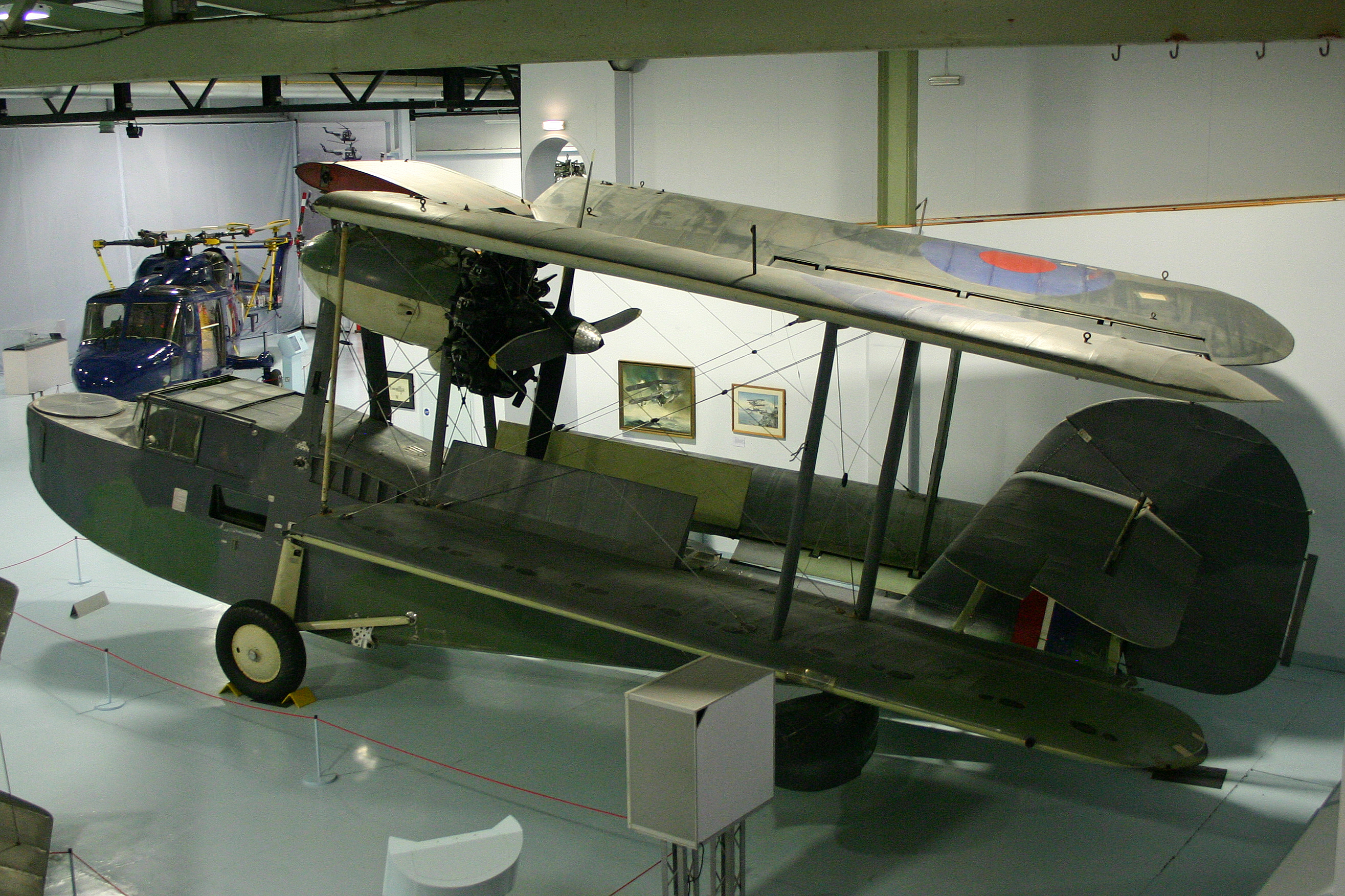 Displayed in the '100 Years of Naval Aviation' exhibition. Also served with the Irish Air Corps. msn 6S/21840. FAA Museum Yeovilton. 15-6-2011